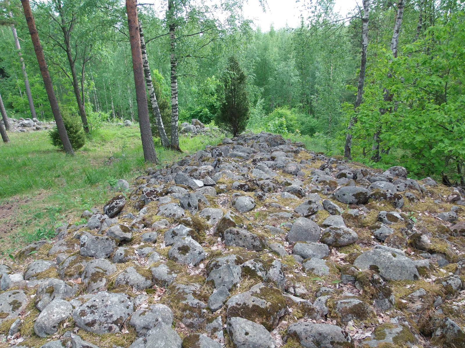 Rapola castle